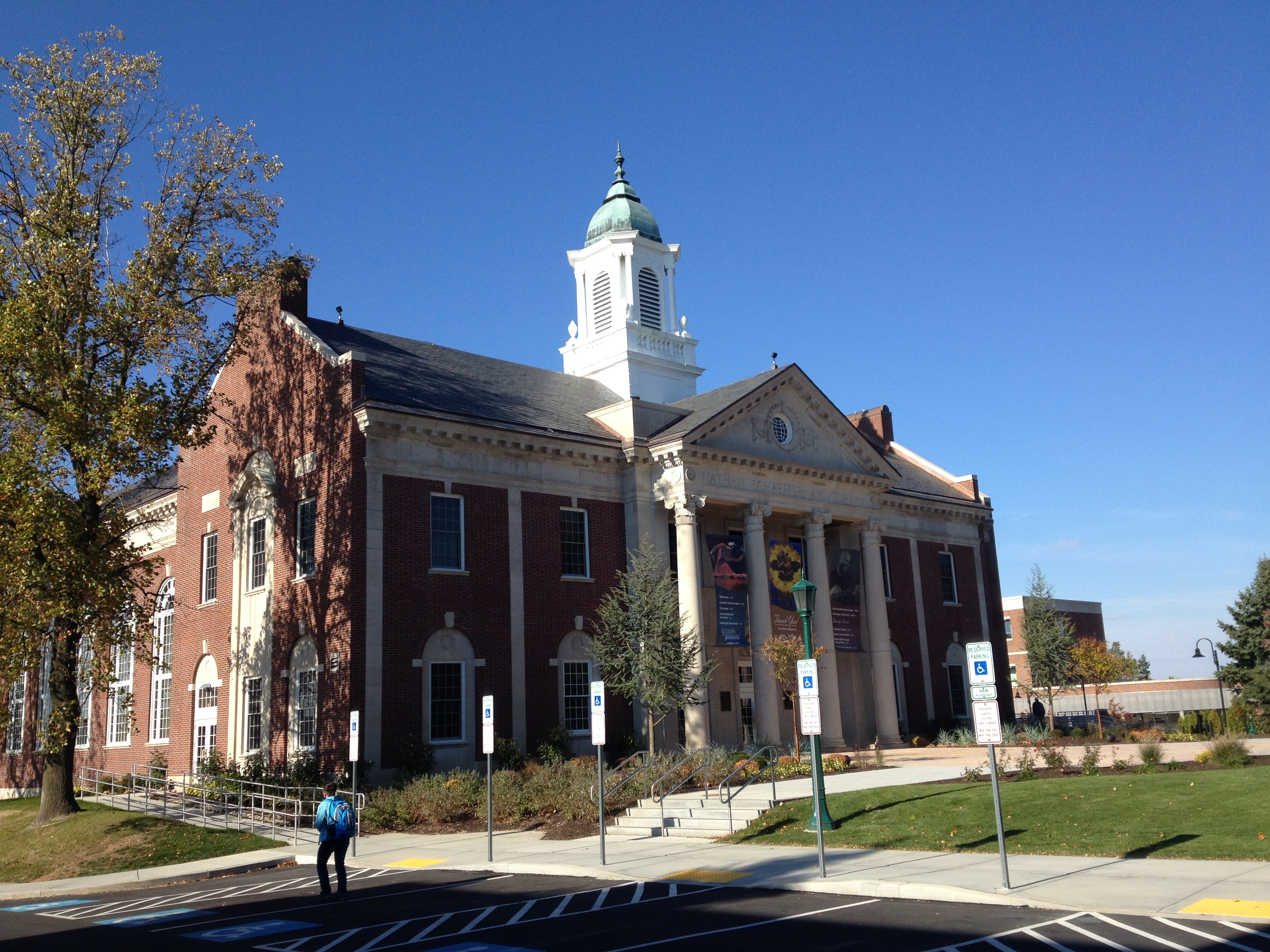 Schaeffer Auditourium at Kutztown University of Pennsylvania